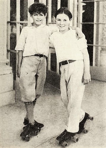 Philippe De Lacy e Junior Coghlan